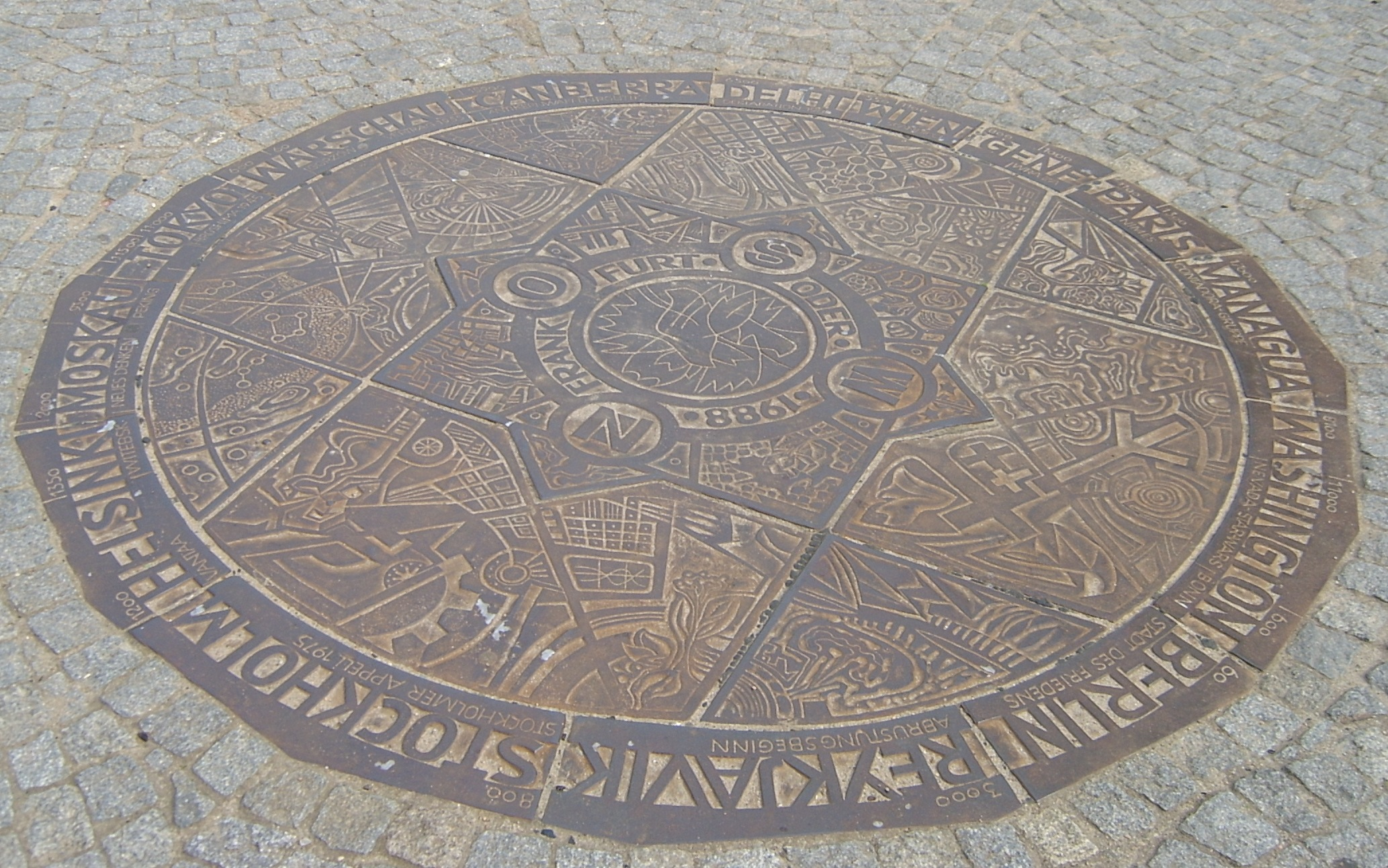 Artwork "The social events of current times" in street Große Scharrnstraße in Frankfurt (Oder), Brandenburg, Germany